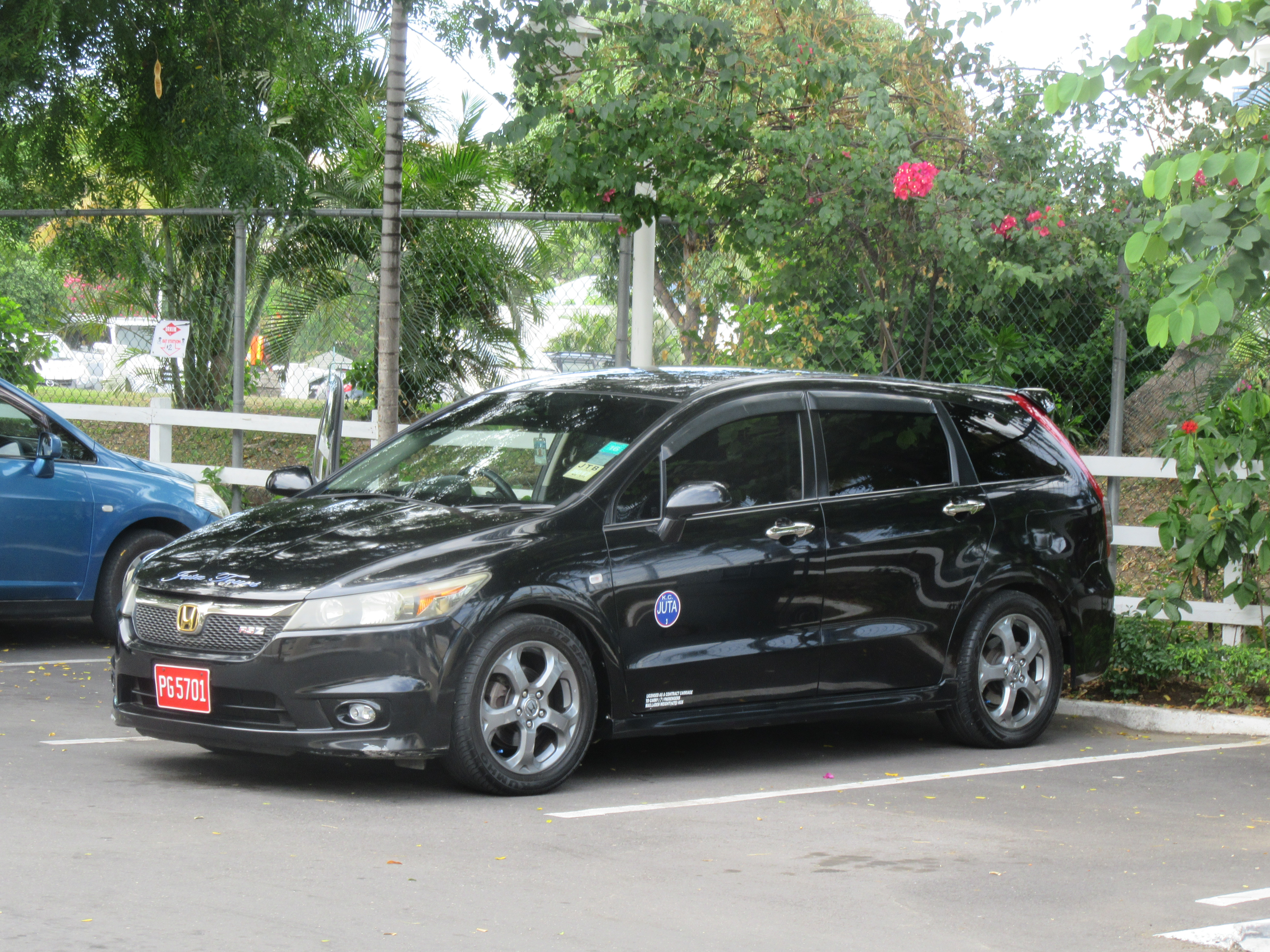 Honda Stream RSZ in Jamaica